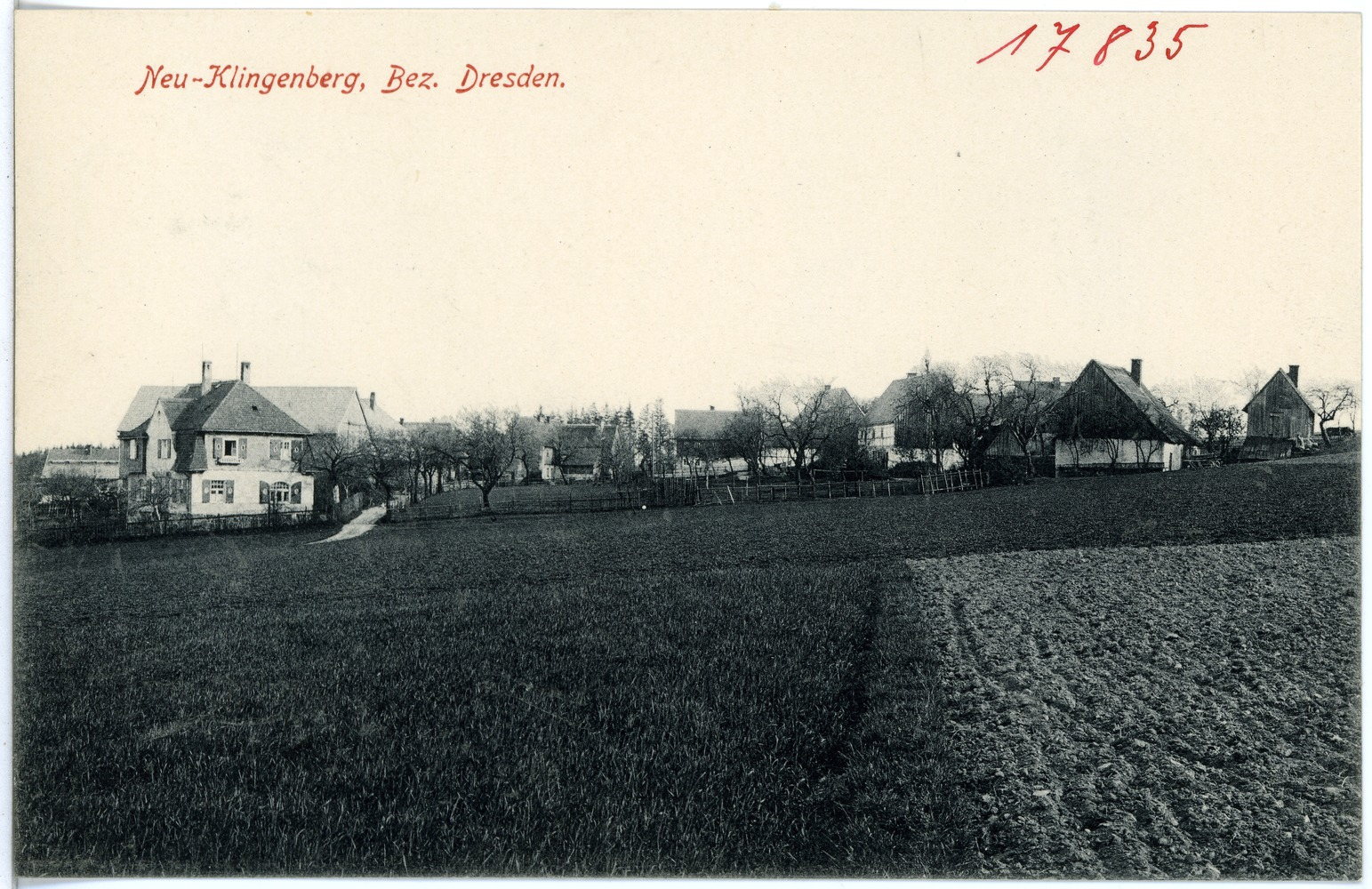 This postcard is from publisher Brück & Sohn in Meißen ( This postcard has a unique number 17835 and is available in a higher resolution at the publisher. This images was uploaded in a cooperation project between Wikipedians and the publisher.